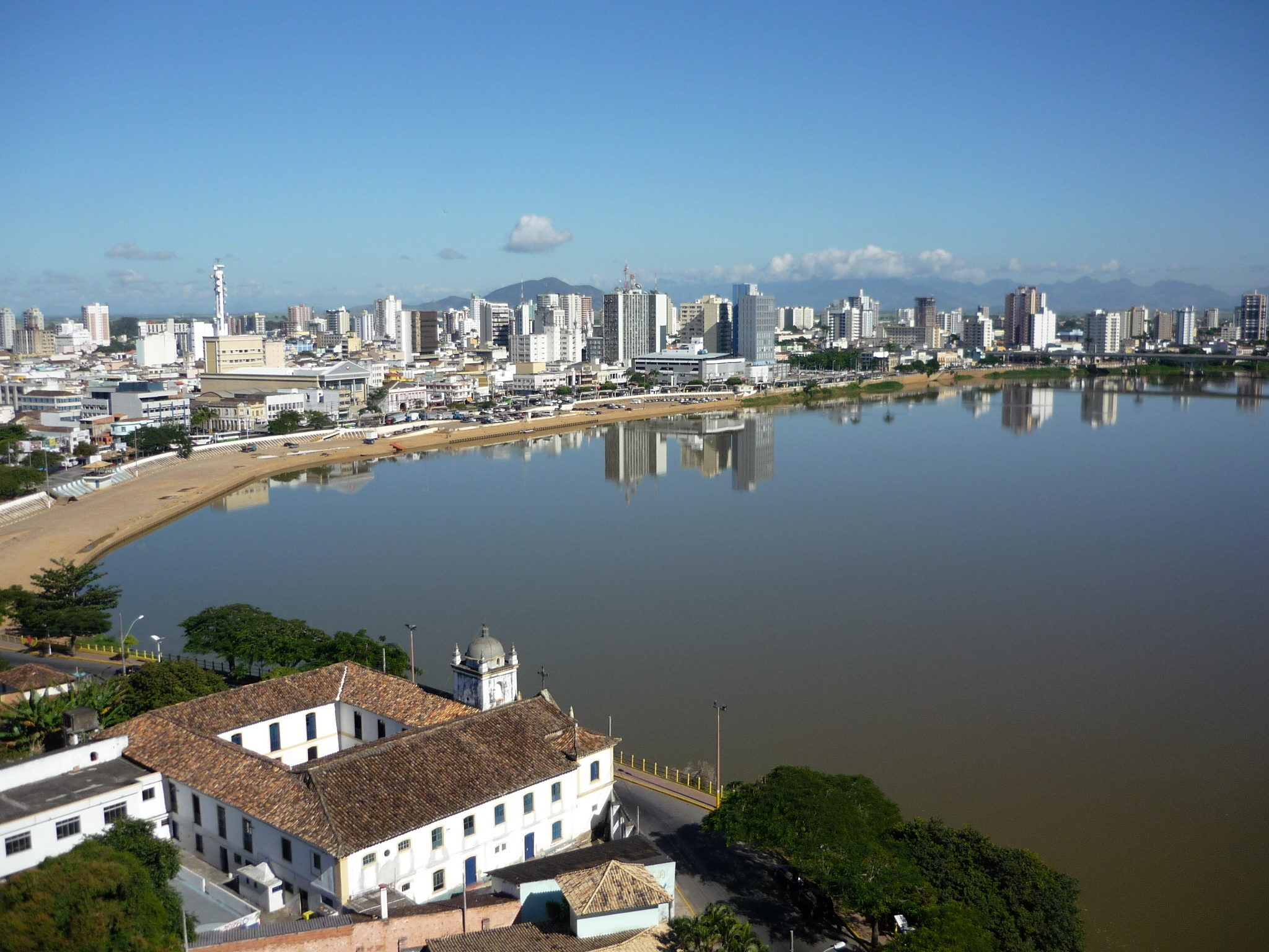 A view to Campos dos Goytacazes City, Rio de Janeiro State, Brazil